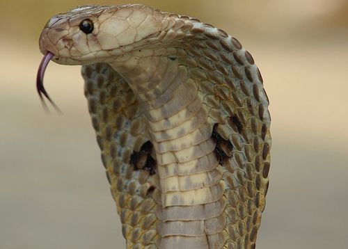 Indian Spectacled Cobra, one of India's venomous snakes.